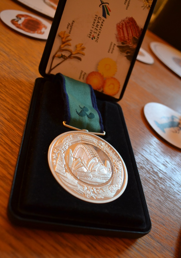 Ian Sharpe's Paralympic medal He is a blind athlete - initially a swimmer, then a cyclist and